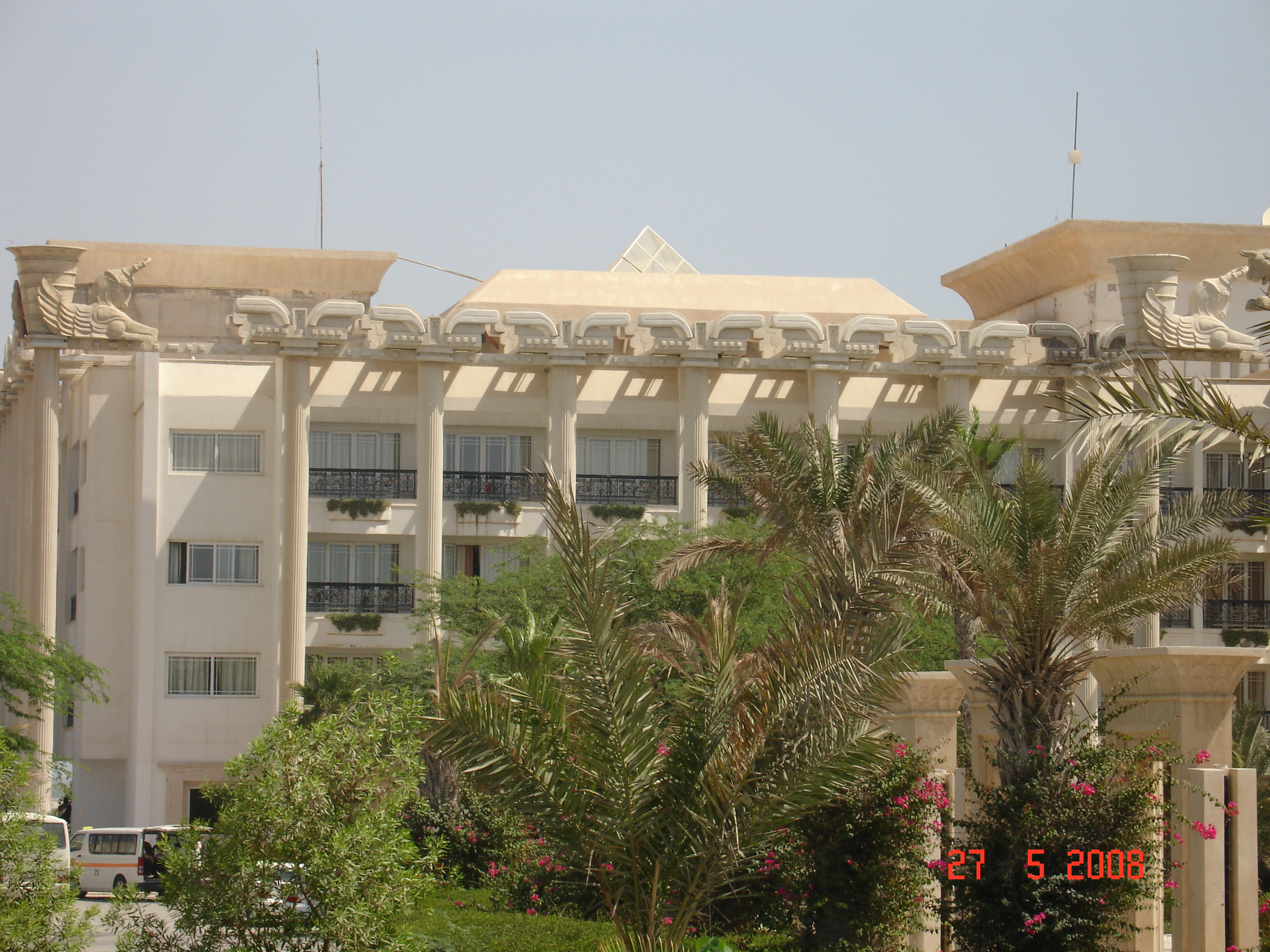 Dariush Grand Hotel in Kish island